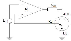 Potentiostat: base schematics